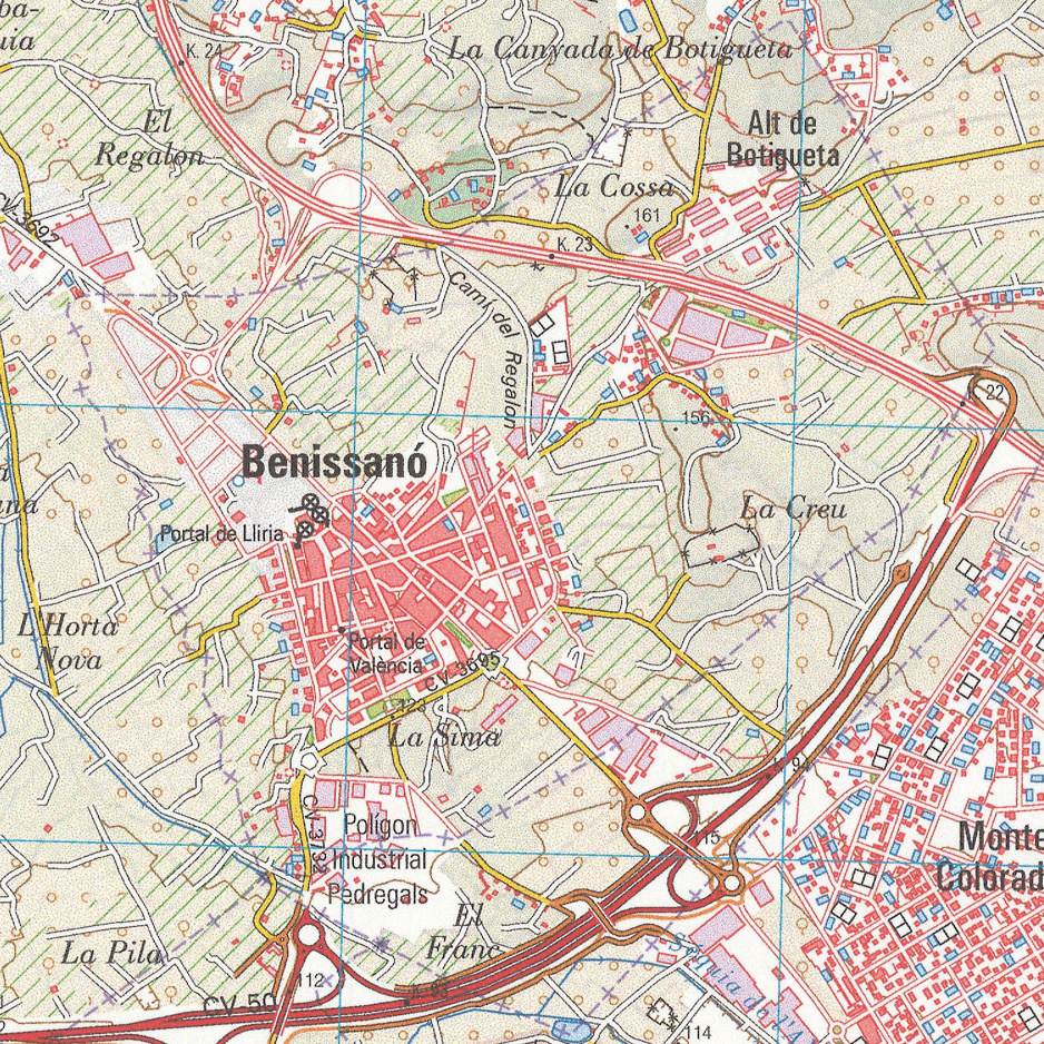 Fragment 0695c2 of the National Topographic Map of Spain in 2017 at a scale of 1:25000 printed and scanned with a resolution of 250 ppi. It shows Lliria.